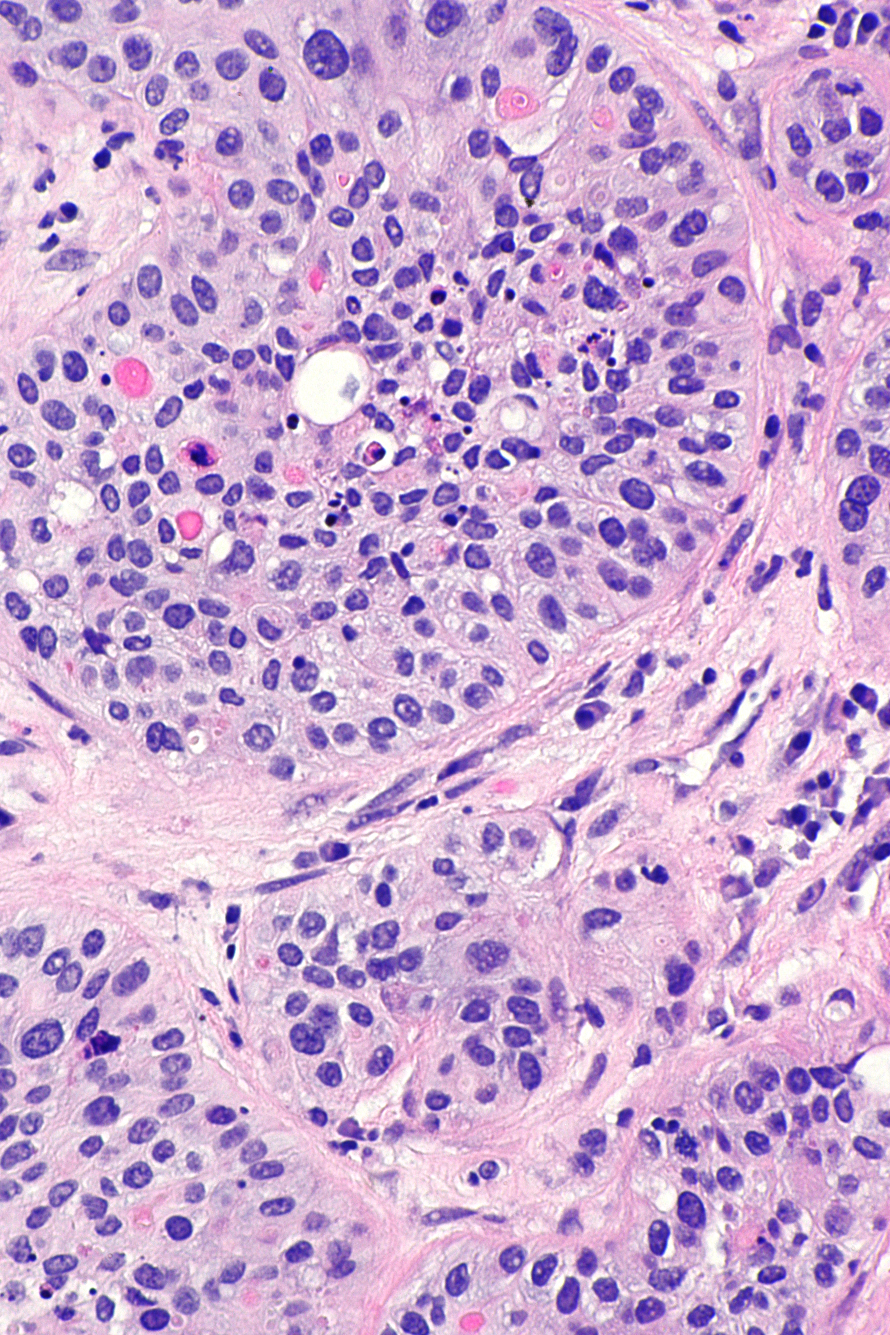 Micrograph showing urothelial carcinoma. Core biopsy. H&E stain. Related images UCC - low mag. UCC - intermed. mag. UCC - high mag. UCC - very high mag. UCC - intermed. mag. UCC - high mag. UCC - low mag. UCC - intermed. mag. UCC - high mag. UCC - intermed. mag. UCC - high mag. UCC - very high mag. UCC - very high mag.